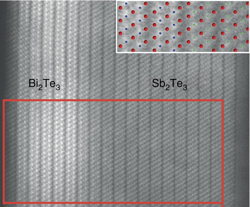 HAADF image of atomic resolution. The large overview image reveals the high quality of the crystal. Van der Waals gap separated quintuple layers can be observed. The contrast in the image is related to the size of the atoms on which electrons are scattered, that is, chemical contrast is obtained. The right inset in a shows a magnified region across the interface of the two layers with a structural model superimposed (blue atoms, Bi; green atoms, Sb and red atoms, Te).